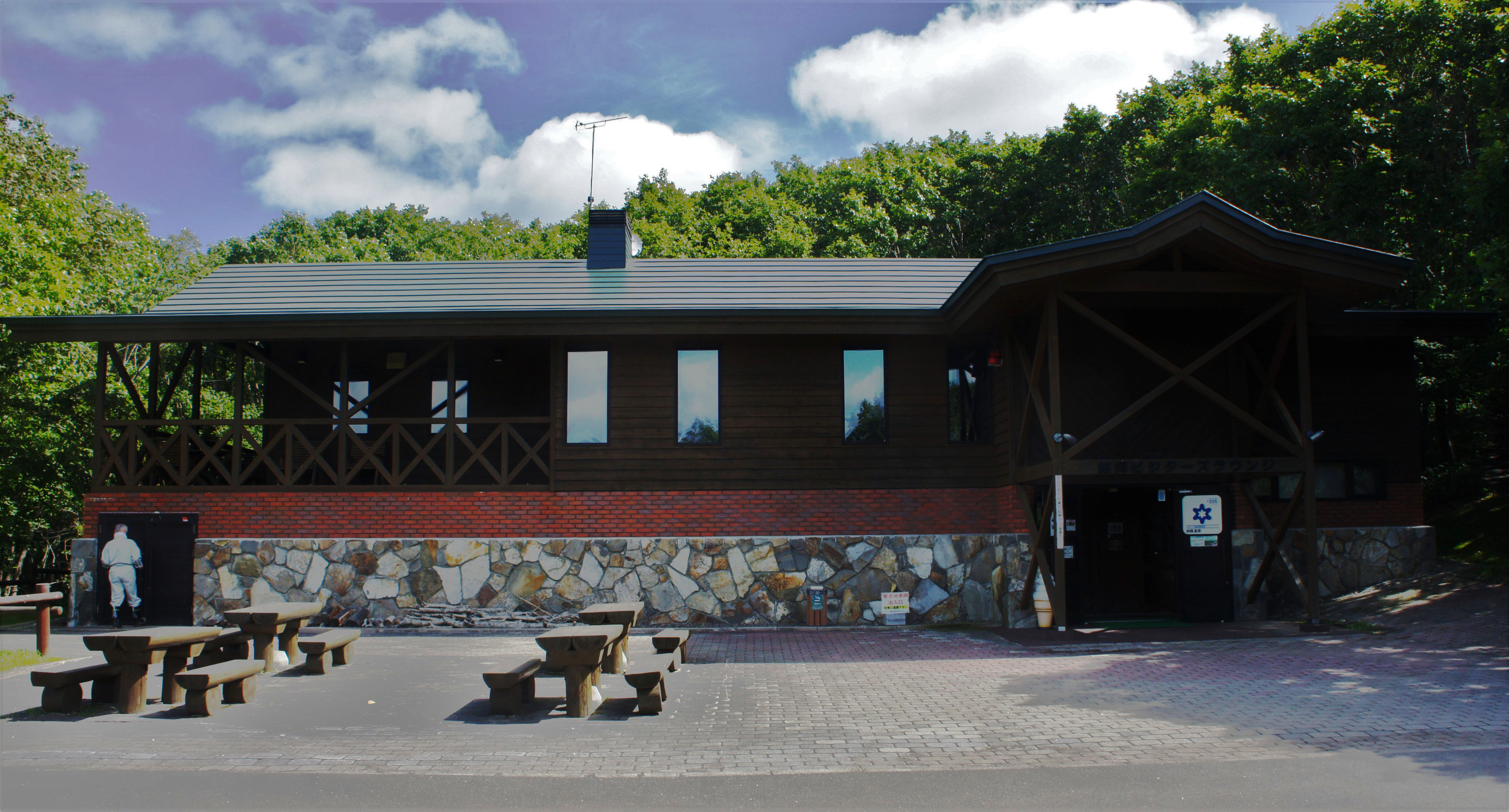 A view of the appearance of the Hosooka Visitors Lounge in Kushiro Town, Hokkaido